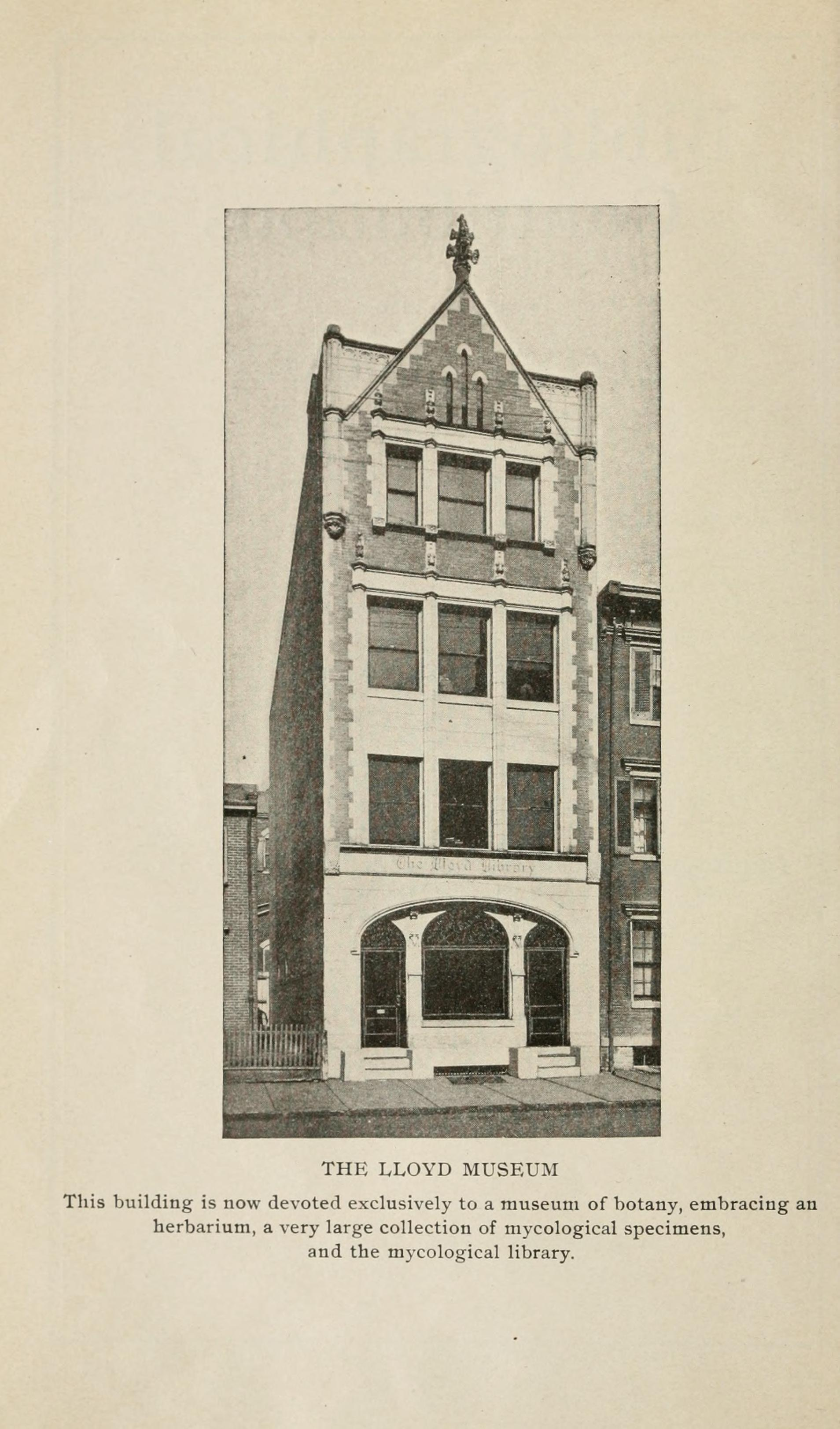 Bibliographical contributions from the Lloyd library, Cincinnati, Ohio.